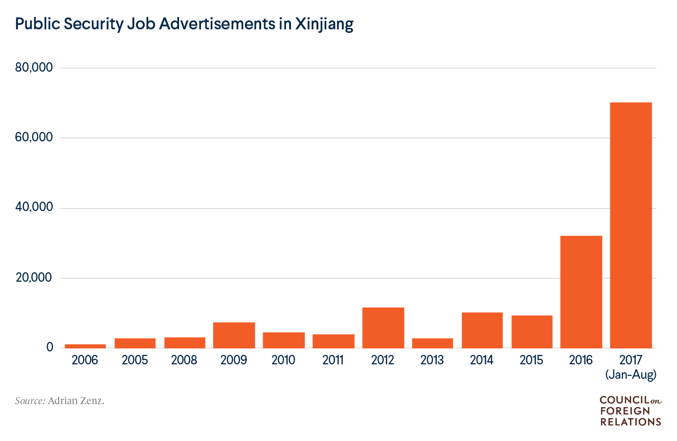 Police Jobs in Xinjiang